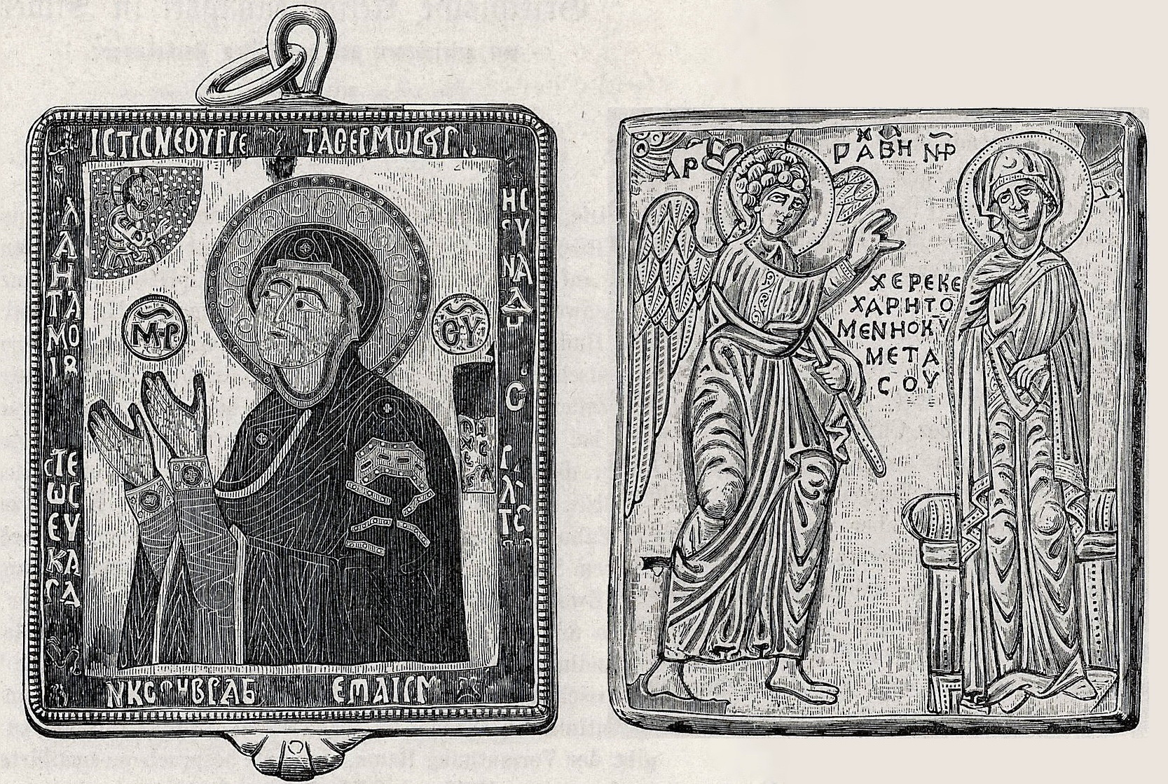 Montage of two woodcut illustrations of a small silver reliquary (engolpion) with an enamel portrait of a Madonna (11th c.?) and a relief of the Annunciation in the Treasury of the Basilica of Our lady in Maastricht, the Netherlands. Two of 66 illustrations in Bock & Willemsen's 1872 publication on the church treasures of St. Servatius and Our Lady, both in Maastricht.